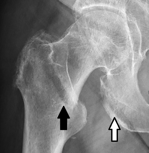 X-ray of the hips of a 78 year old male who had a fall. On the first X-ray (here), skin folds were projected over the fracture, but these images in different projections more clearly show the fracture. It was further confirmed by a CT scan (here), as a pertrochanteric hip fracture.